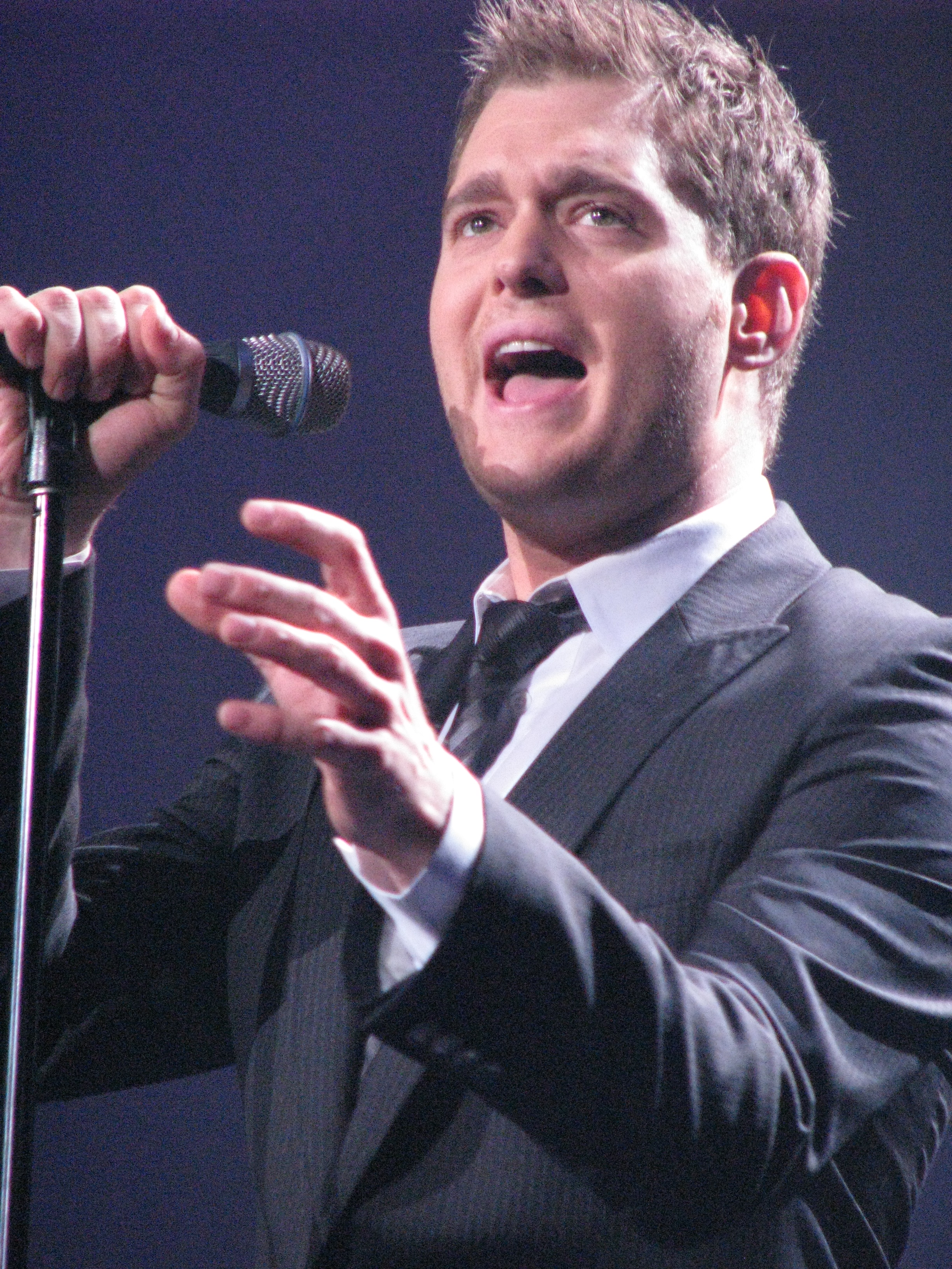 Michael Bublé at the Sydney Entertainment Centre, June 21, 2008.